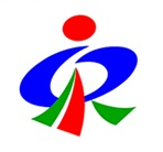 Symbols of Higashimatsushima Miyagi